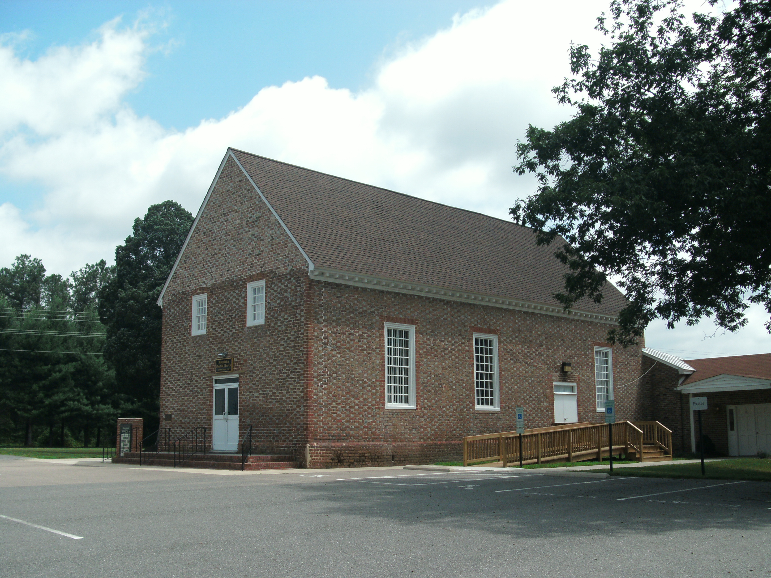 King William Courthouse and Vicinity - May, 2010 GEDSC DIGITAL CAMERA